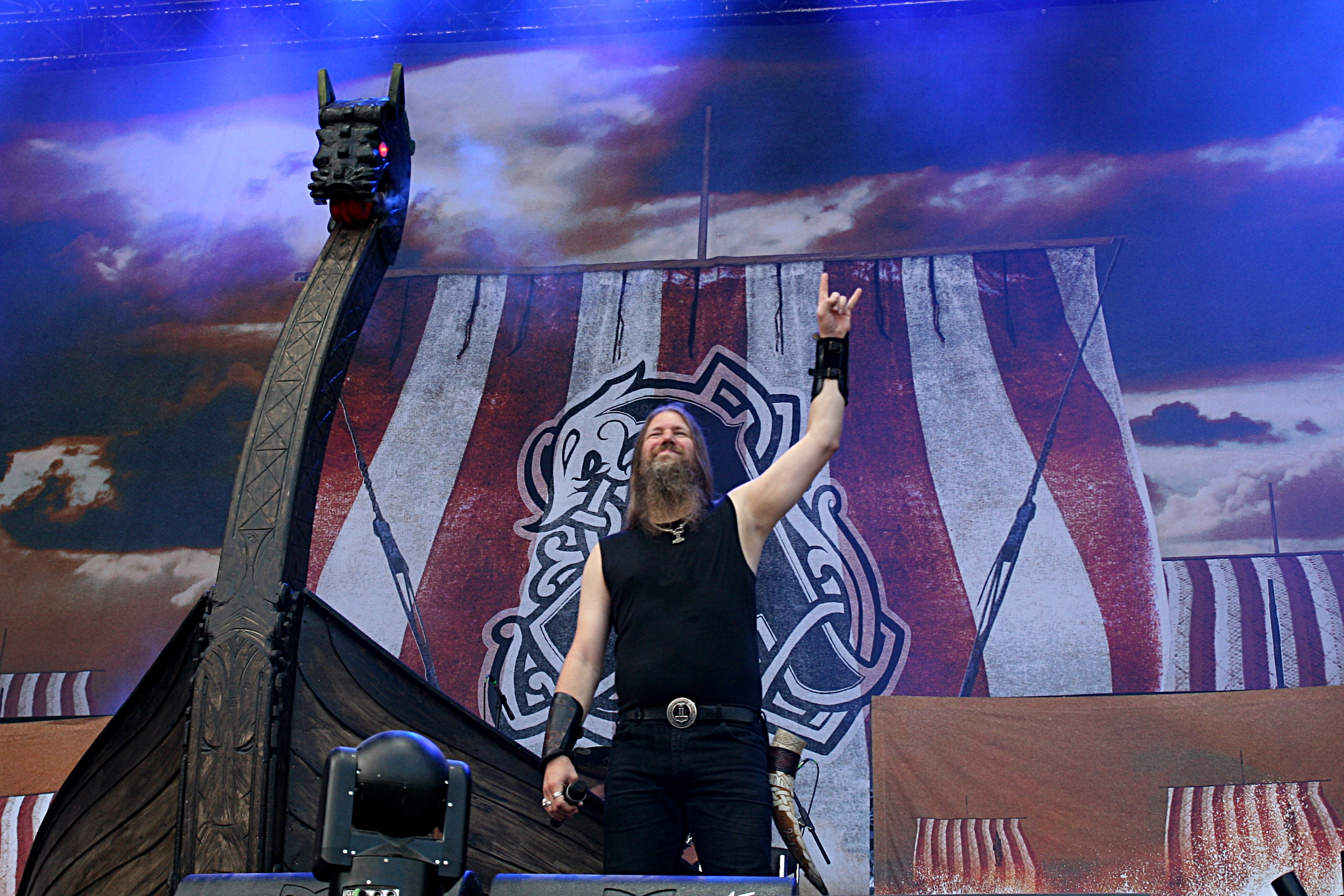 Johan Hegg, singer of Amon Amarth, on the Alterna Stage of Rock im Park-Festival 2013. Festivalsommer This photo was created with the support of donations to Wikimedia Deutschland in the context of the CPB project "Festival Summer".